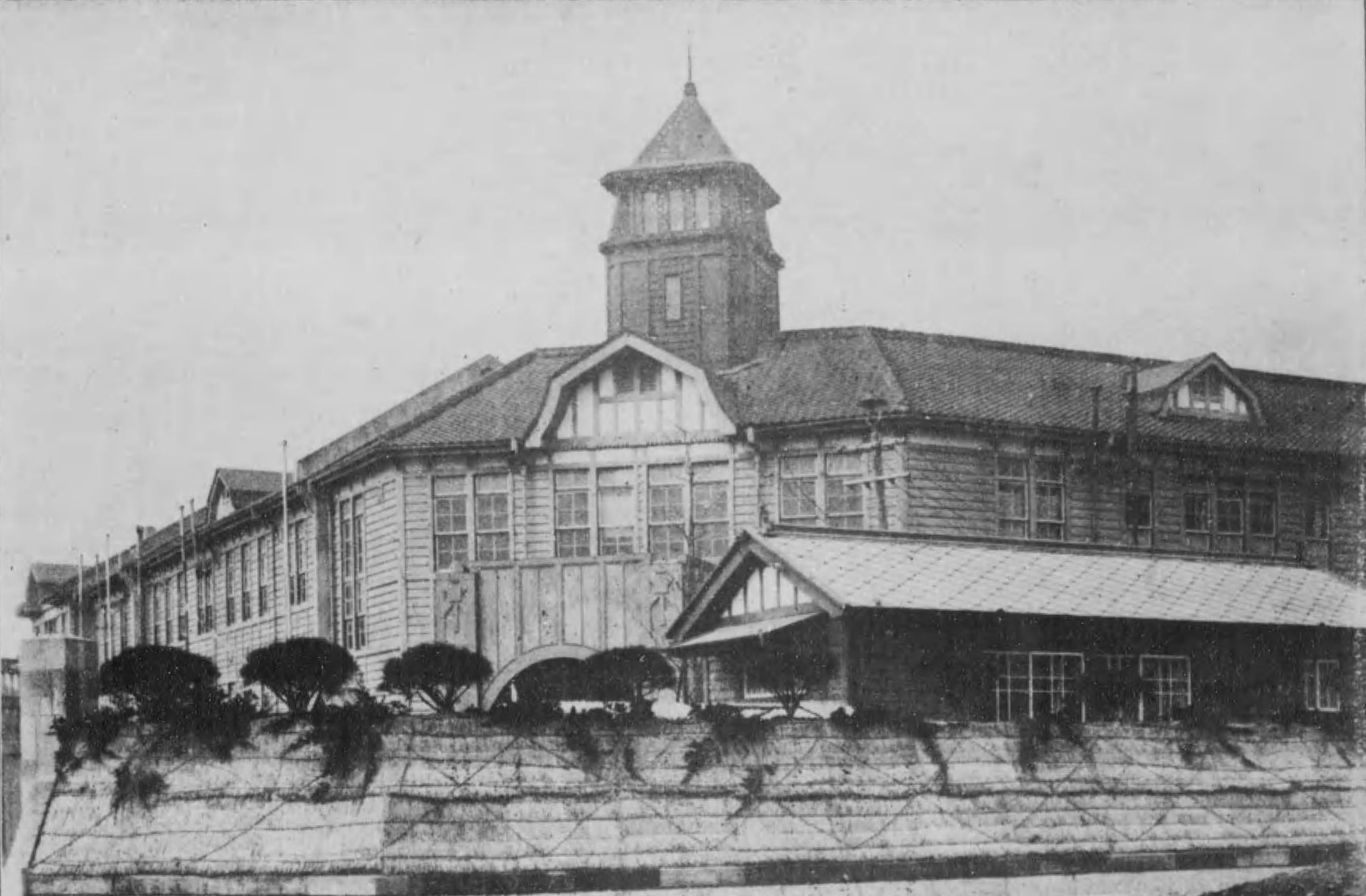 The main building of Tokyo College of Industrial Arts.